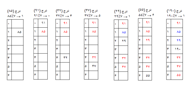 همان طور که پیداست از تصویر وقتی عددی میخواهد درج شود در جدول با توجه به باقی ماندش به عدد مشخص شده در جایگاه مخصوص خود قرار میگیرد و تنها نکته این است که اگر جایگاه مخصوص به ان عدد قبلا توسط عددی دیگر پر شده باشد به نزدیکترین جایگاه بعد از ان منتقل میشود.